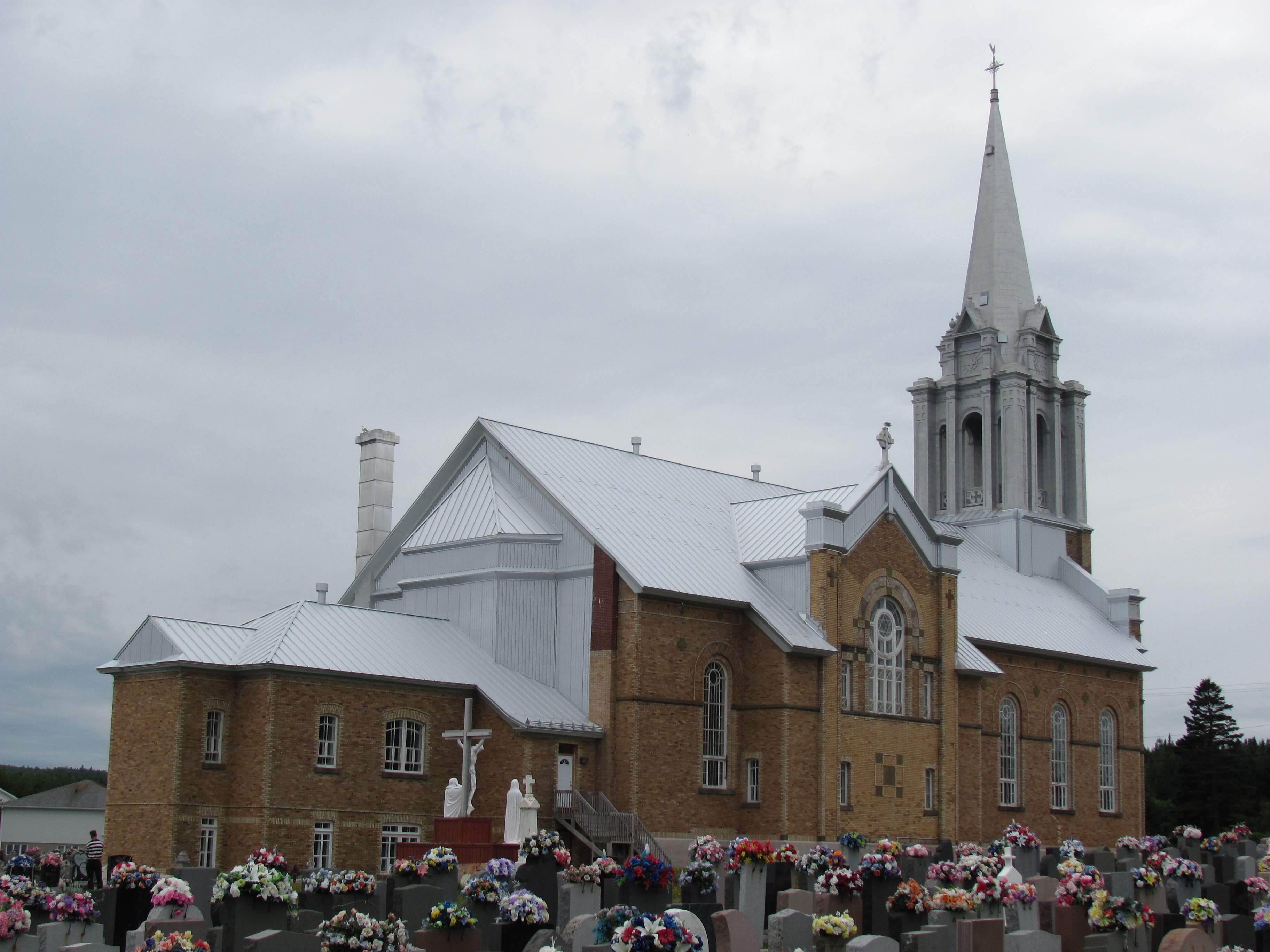 Catholic church St. Dominique, Newport, Gaspésie, Québec, Canada